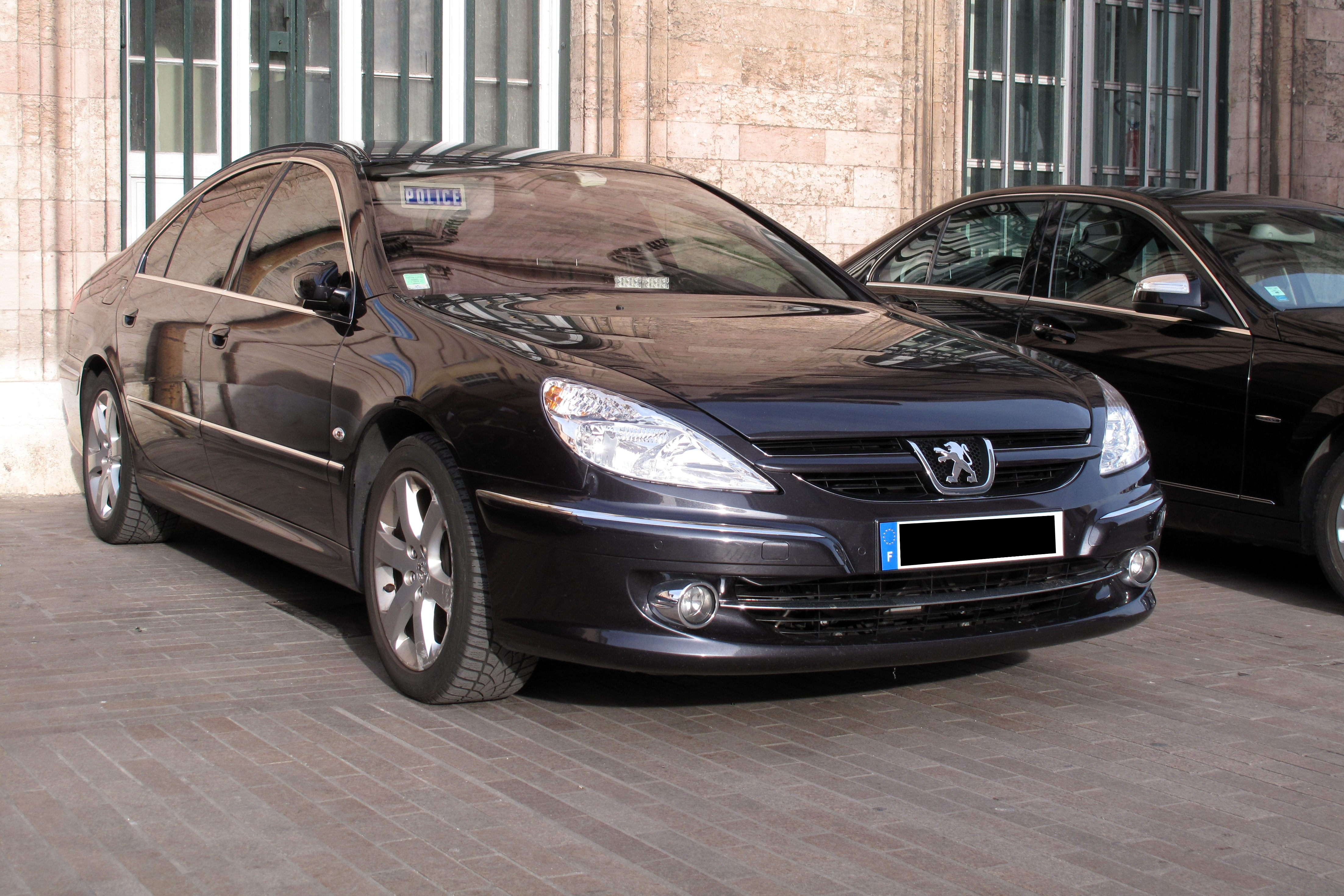 Unmarked Peugeot 607 of the French national police